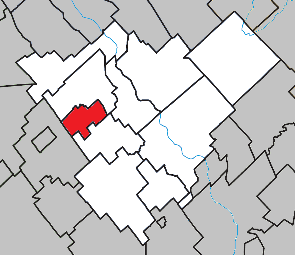 Location of Tring-Jonction, Quebec within Robert-Cliche Regional County Municipality.